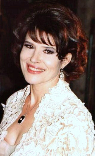 Fanny Ardant, French actress